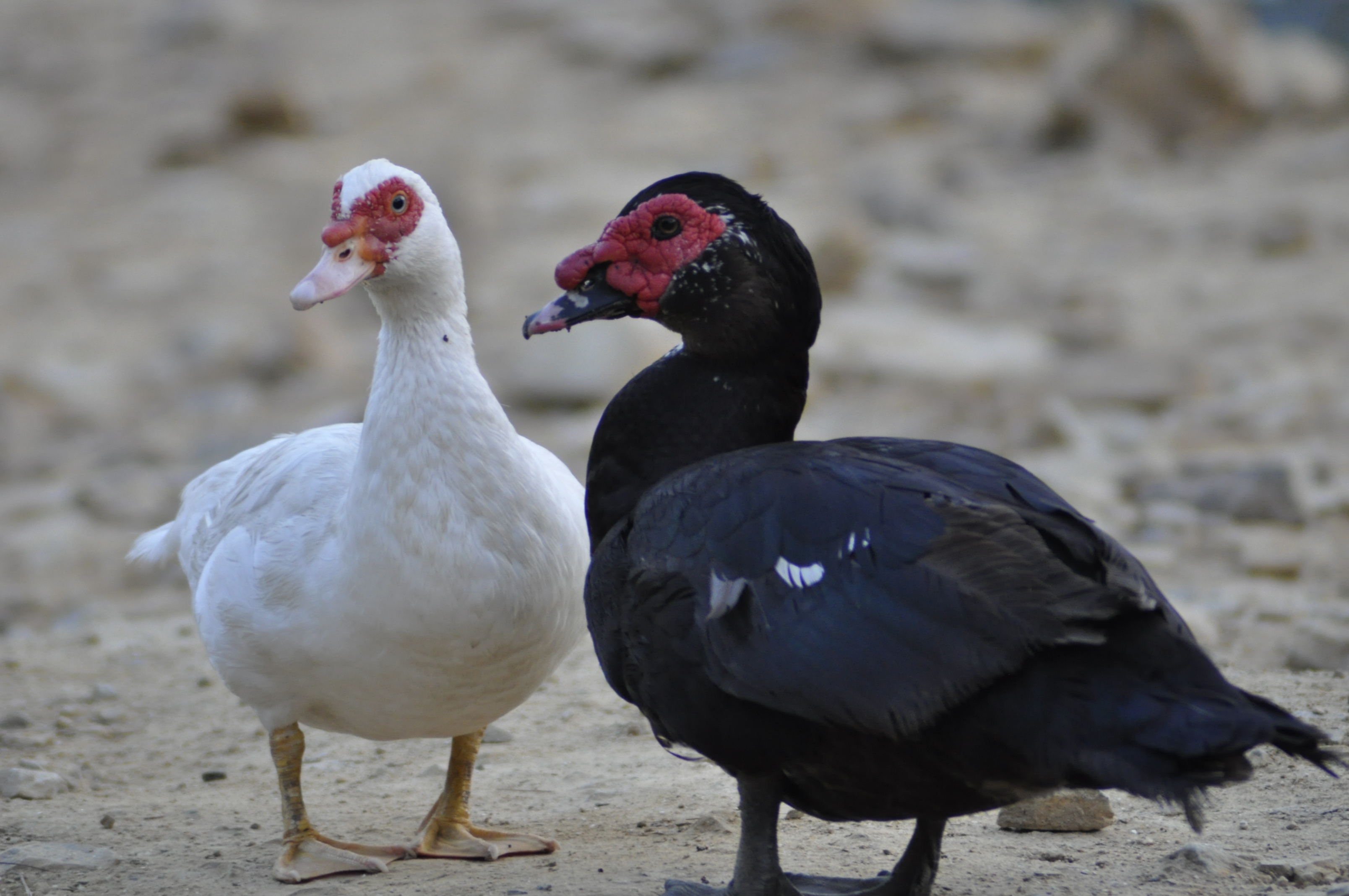 Domestic Birds